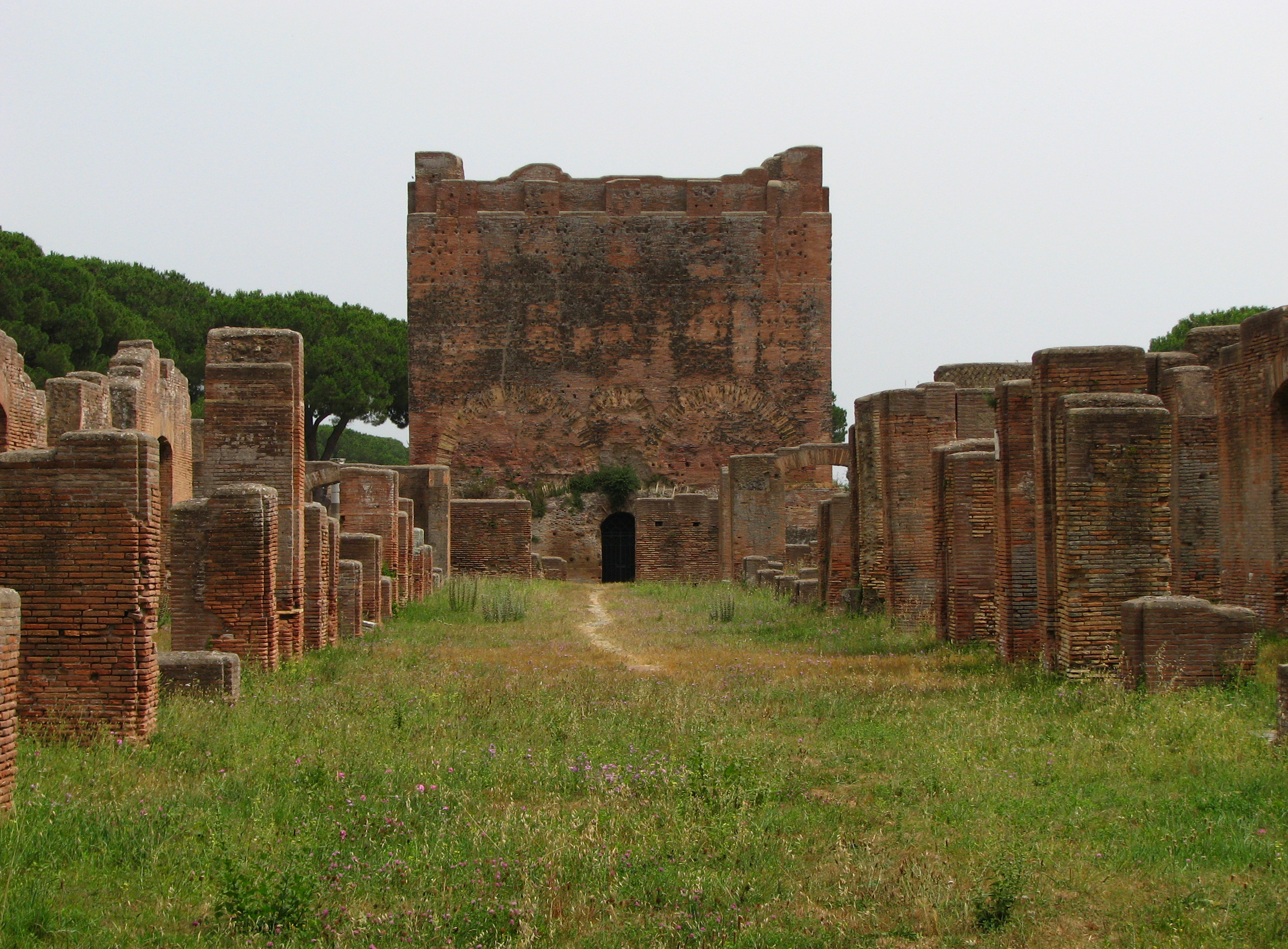 View of Cardo Maximus and of the Capitolium from behind. Ostia Antica, Roma, Italia.